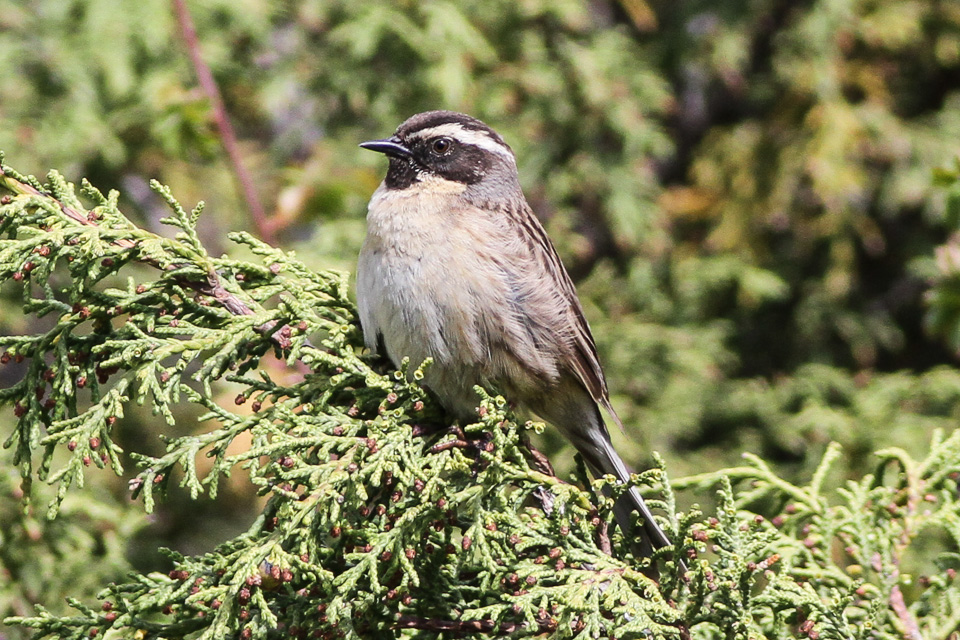 Tien Shan Observatory, Almaty